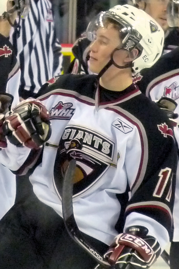 Vancouver Giants forward Brendan Gallagher in game seven of the secon round of the 2009 WHL playoffs against the Spokane Chiefs.